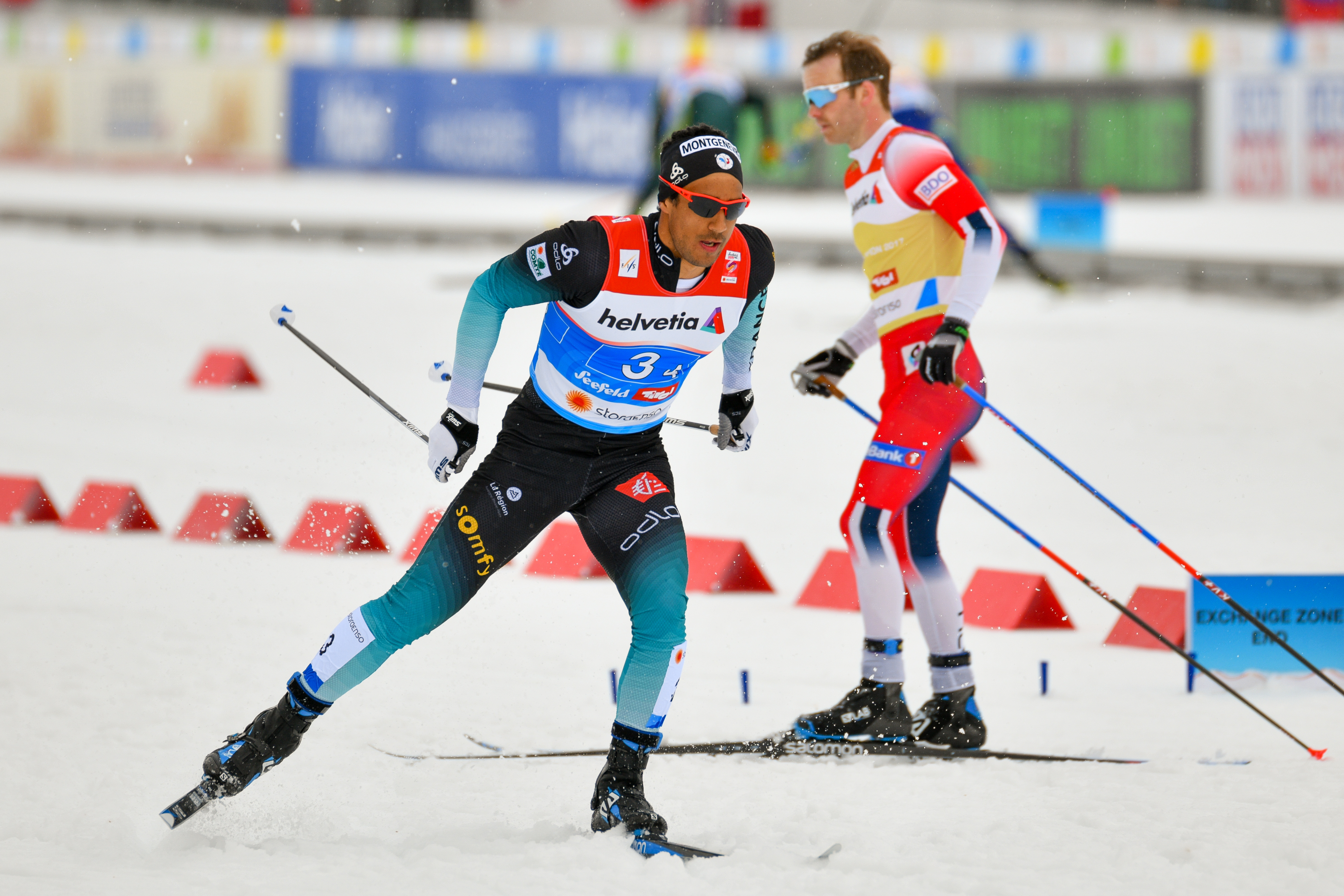 FIS Nordic Wolrd Ski Championships Seefeld 2019 - Men 4x10km Relay Classic/Free. Picture shows Richard Jouve (FRA).